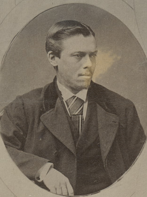 Portrait of John Duncan (Australian politician).